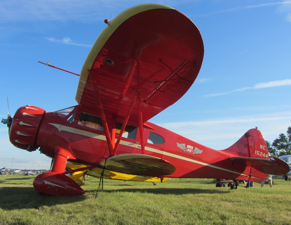 Waco YOC